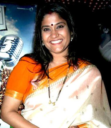 Renuka Shahane at Premiere of Marathi film 'Mission Possible'